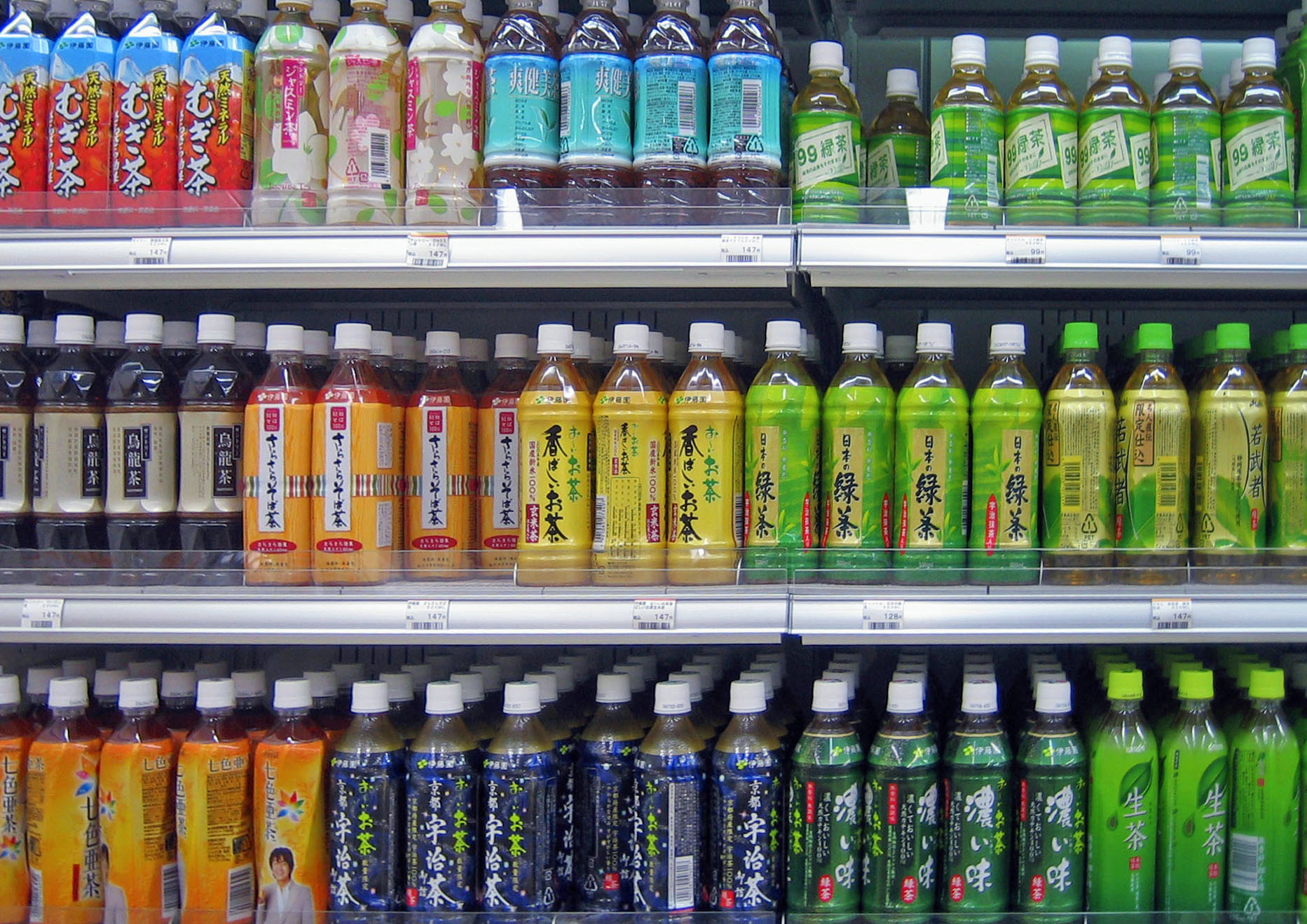 Cold Tea Drinks in a shop in Japan